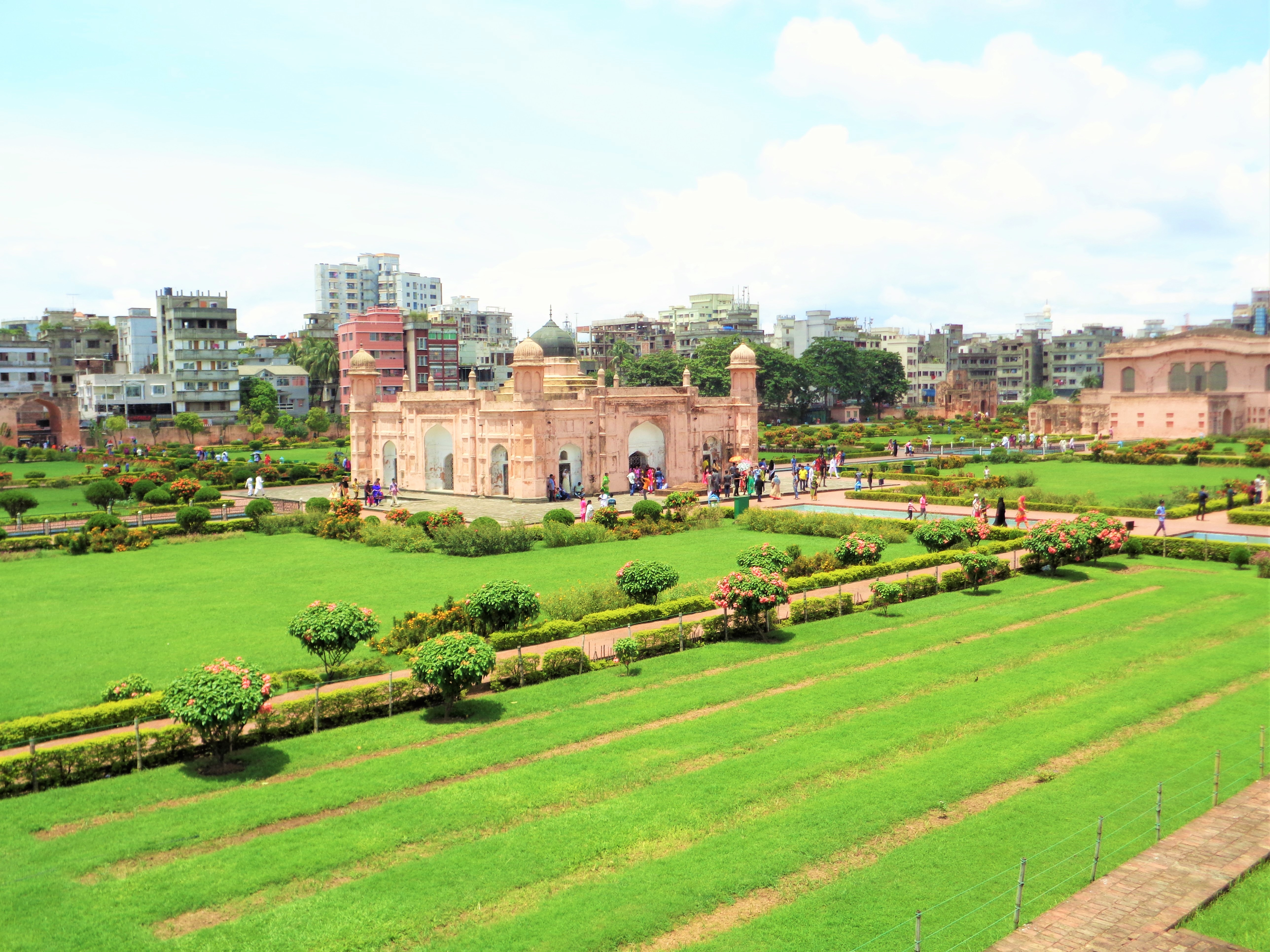 A view of Lalbagh Fort, captured from the top of the water tank.